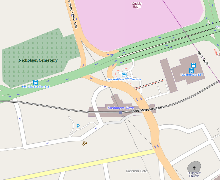 A derivative of an OpenStreetMap image, with added point of interest.